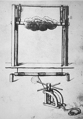 Theatre machinery designed by Italian architect of the Baroque, Nicola Sabbatini, for creating the illusion of moving clouds in the sky.Original illustration, 1638.This stage machine was planned to lower clouds above the set (these usually held gods).